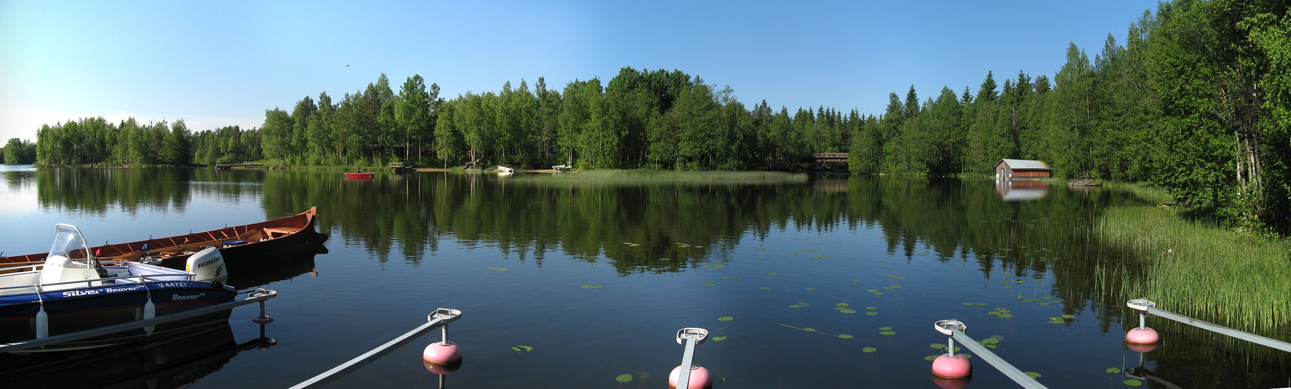 The mouth of river Tainionvirta in the southwest corner of lake Jääsjärvi.